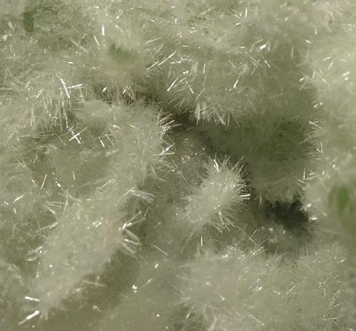 Skorpionite Locality: Skorpion Mine, Rosh Pinah, Lüderitz District, Karas Region, Namibia (Locality at ) Size: 6.2 x 4 x 2.5 cm. An attractive specimen of the new species, Skorpionite. The clear-white crystals grow in beautiful sprays of needles to several mm, and the radial sprays are very rich throughout the pockets in the specimen (which is tarbuttite mixed with host rock). The Skorpionite has a beautiful yellow fluorescence. Ex. Charlie Key Collection.